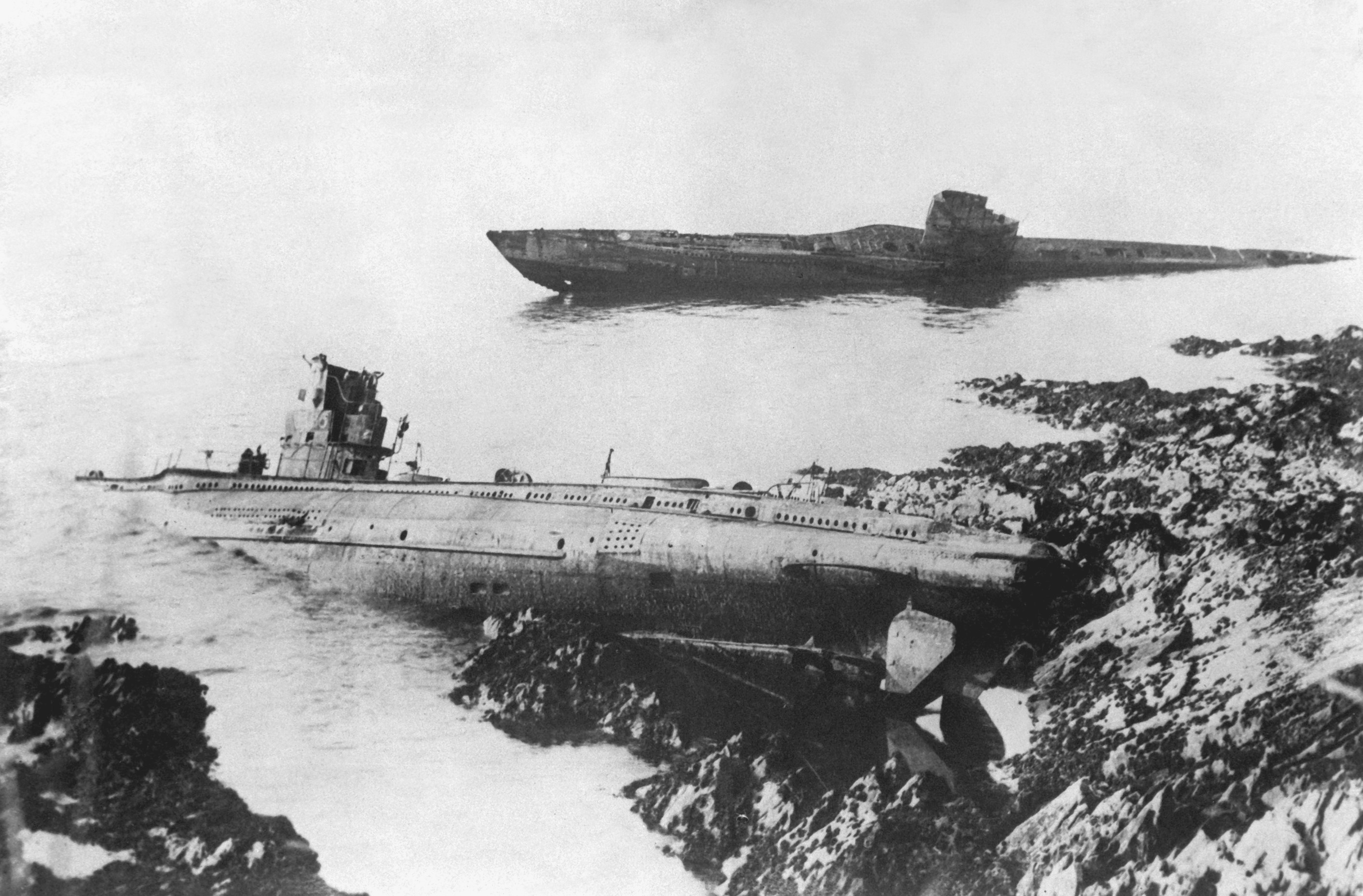 Two German U-Boats grounded near Falmouth in 1921. The one nearer to the camera is UB 86, a UB III-class submarine that was commissioned on 10 November 1917, and made five patrols during the First World War (the hull number is still visible). It was surrendered to Great Britain on 24 November 1918. It was broken up in situ near Falmouth after 1921 after grounding, together with UB 97, UB 106, UB 112, UB 128, and UC 92. The original texts tells that these U-Boats were washed ashore after having been sunk during the war (like U 118 at Hastings in 1919), but the lack of deck guns and periscopes shows that these boats were on the way to the breakers. Original text: "A most remarkable post-war incident was the washing up on the rocks at Falmouth, England, of two German U-boats. They were cast up but a few feet apart; both had been sunk during the war."